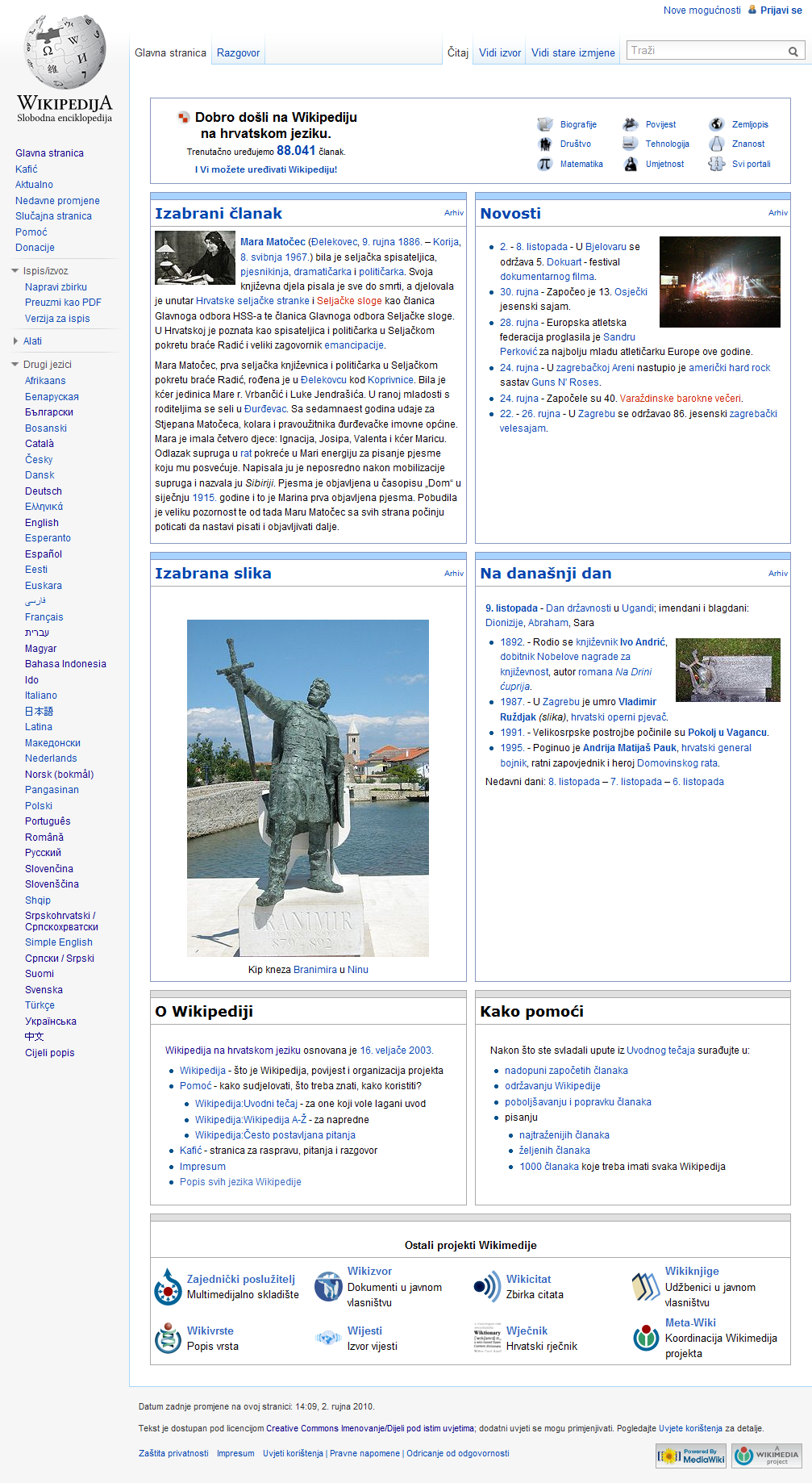 Screenshot of Croatian Wikipedia